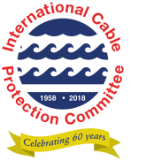 icpc logo